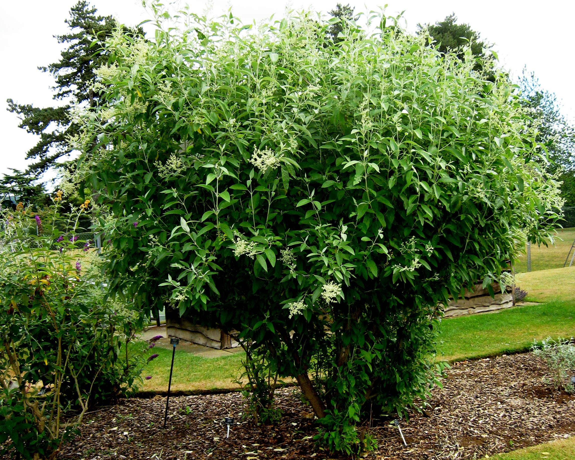 Photo of Buddleja cordata @ 10 years old, at Longstock Park, UK